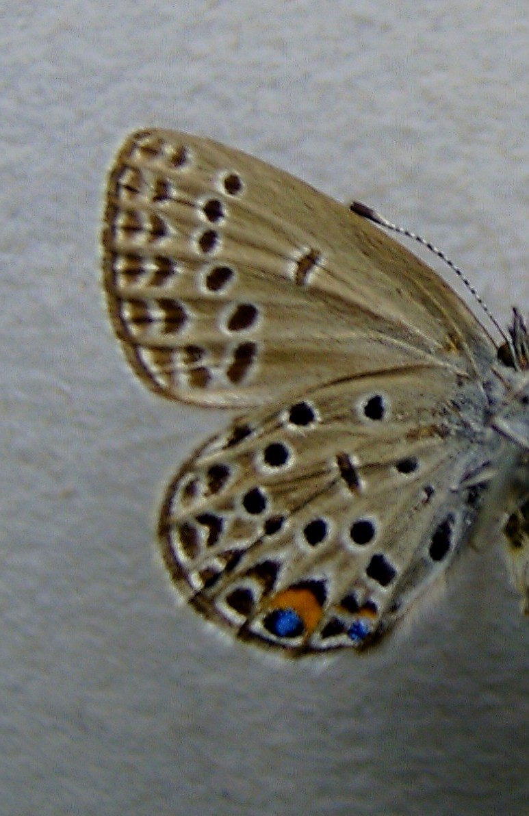 Plebeius optilete